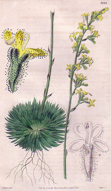 Botanical print of the ciliated-leaved triggerplant from Curtis's Botanical Magazine vol. 68, plate 3883.